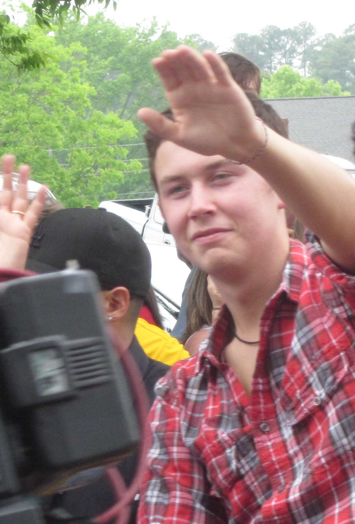 Cropped version of File:Scotty McCreery May 14 2011.jpg.